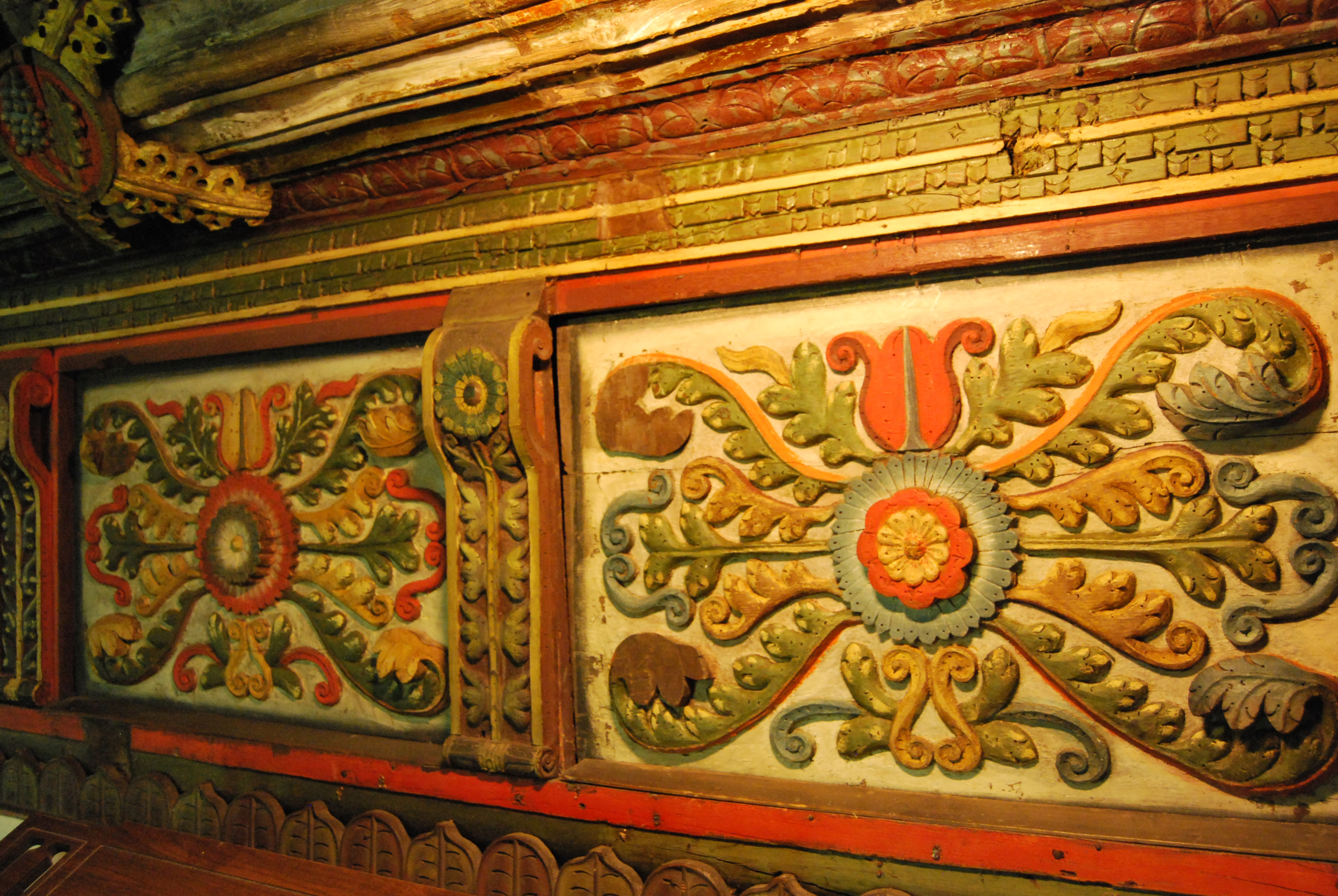 Rhug chapel, decorative wall panels